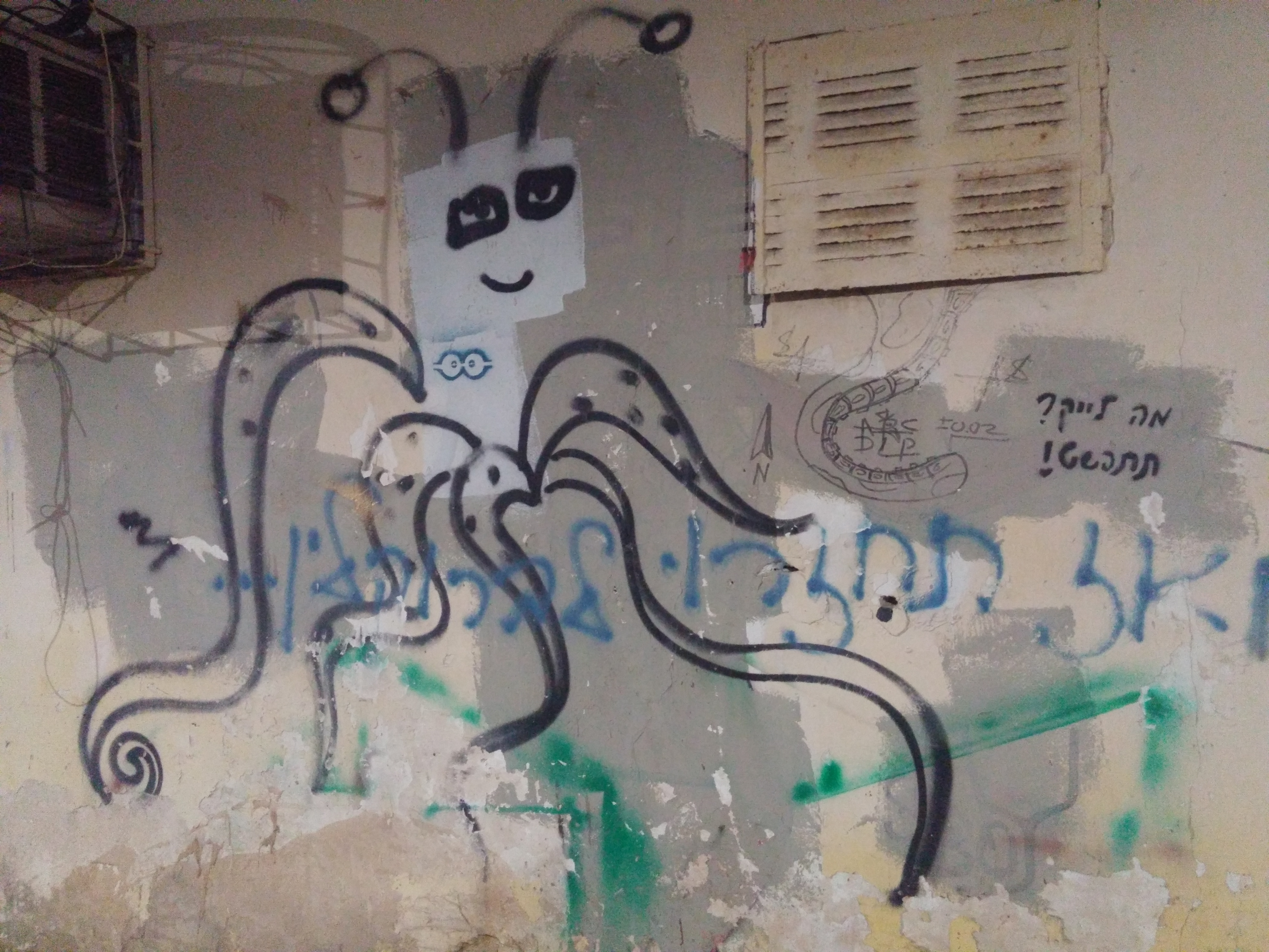 Graffiti in Tel Aviv an ant - octopus on a wall of an old building